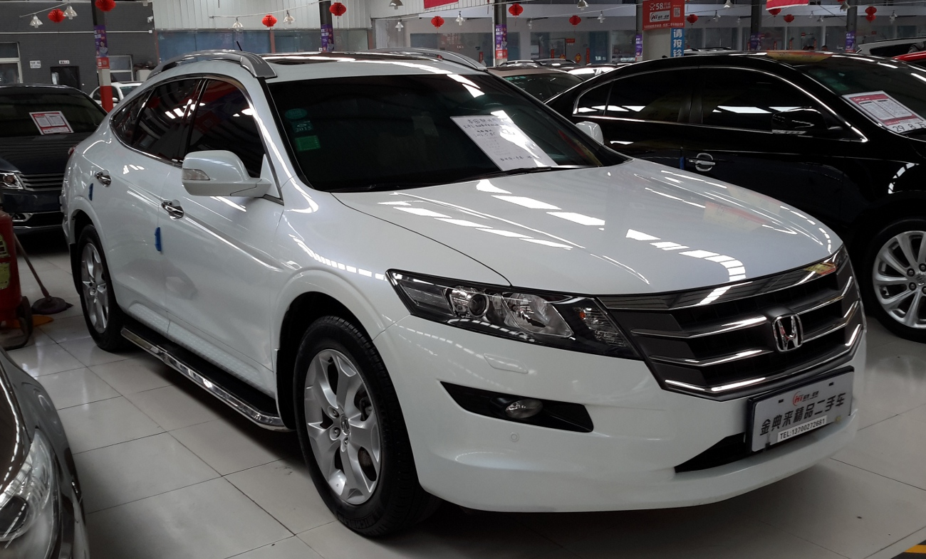 Honda Crosstour photographed in Xi'an, Shaanxi province, China.